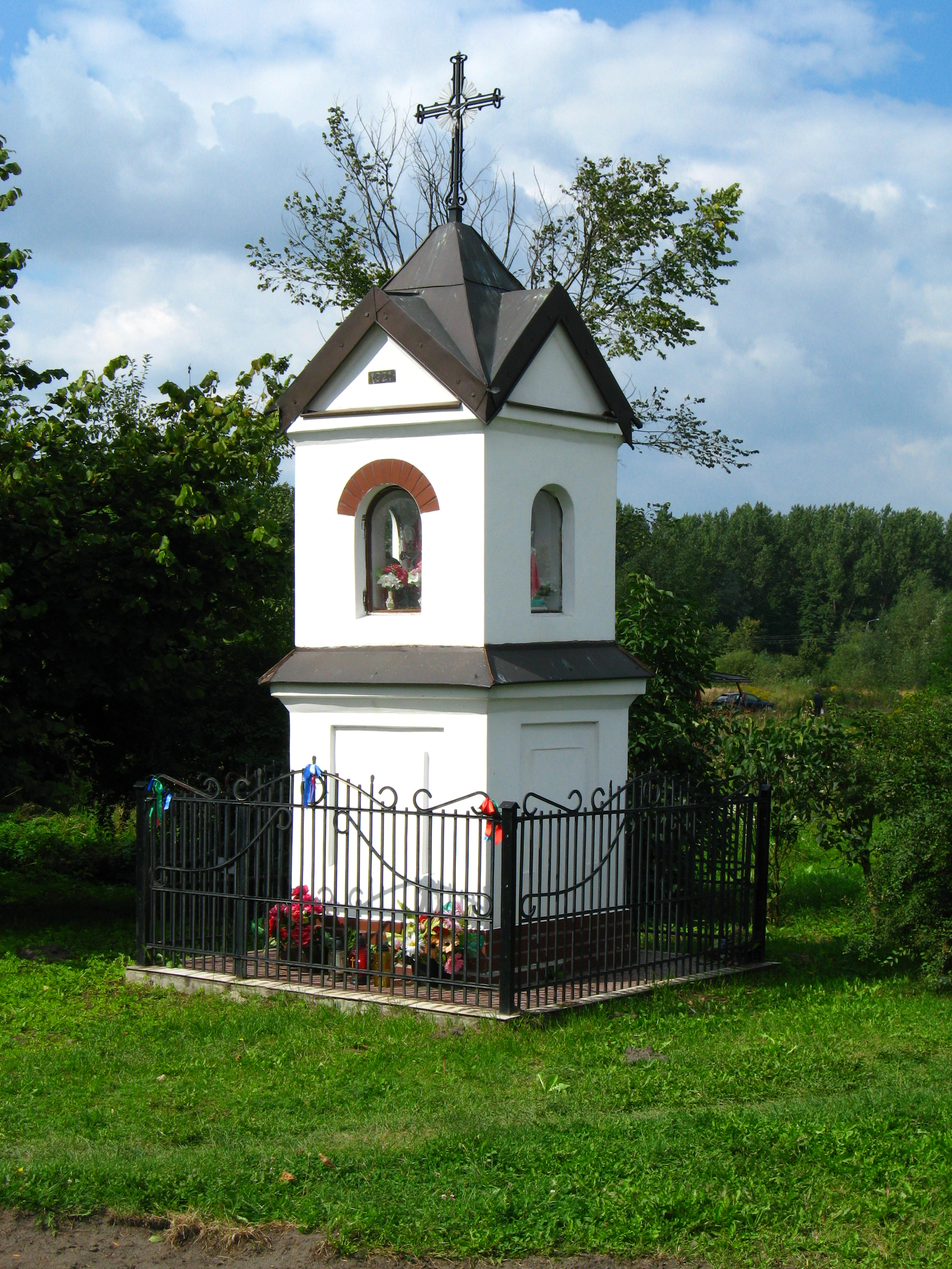 Shrine from year 1921 by the Mostowa st. at Łapy